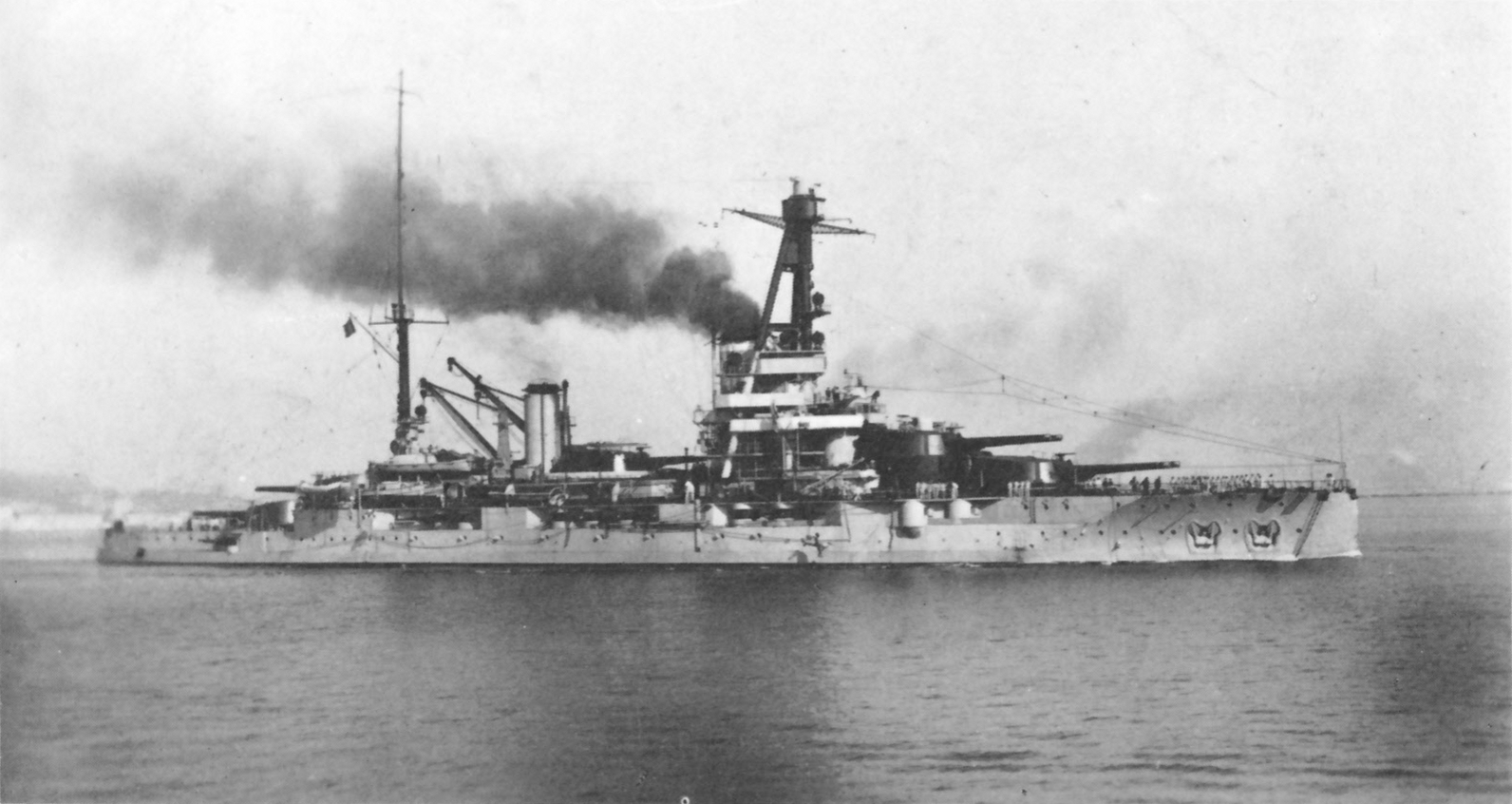 The French battleship Bretagne, after its reconstruction.